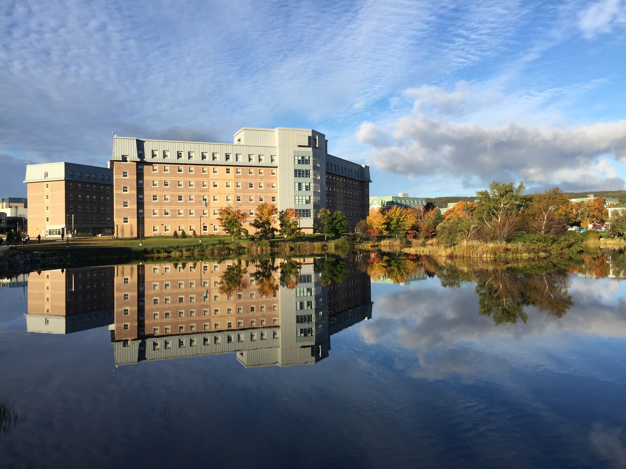 New Residence, Memorial University of Newfoundland, St. John's, Newfoundland and Labrador, Canada.